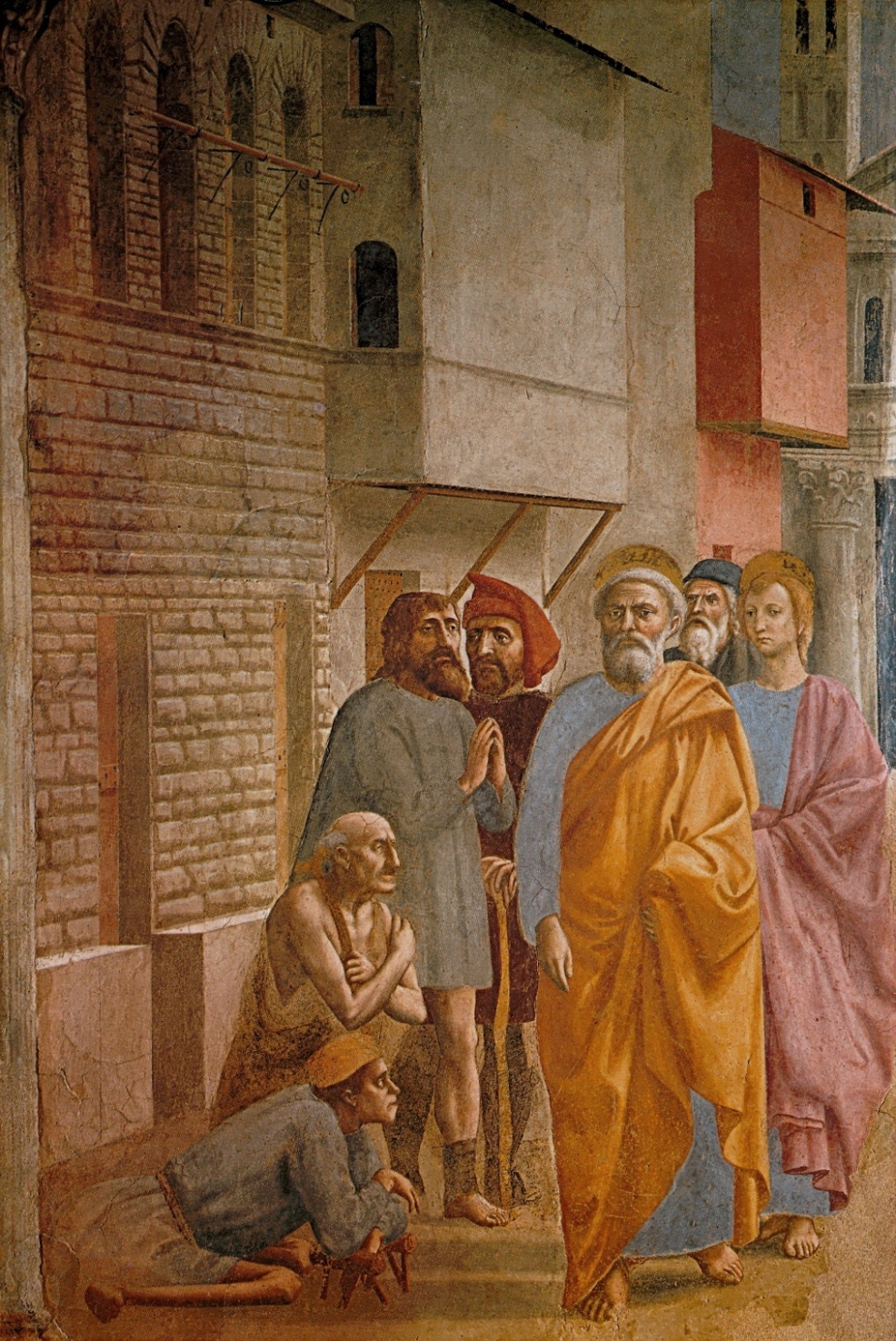 Masaccio._St._Peter_Healing_the_Sick_with_His_Shadow